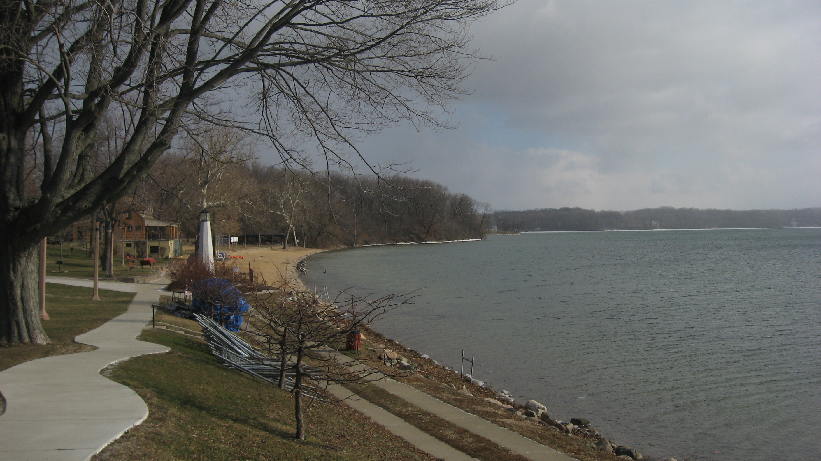 Looking eastward along the Lake Maxinkuckee shoreline at the town park in Culver, Indiana, United States.